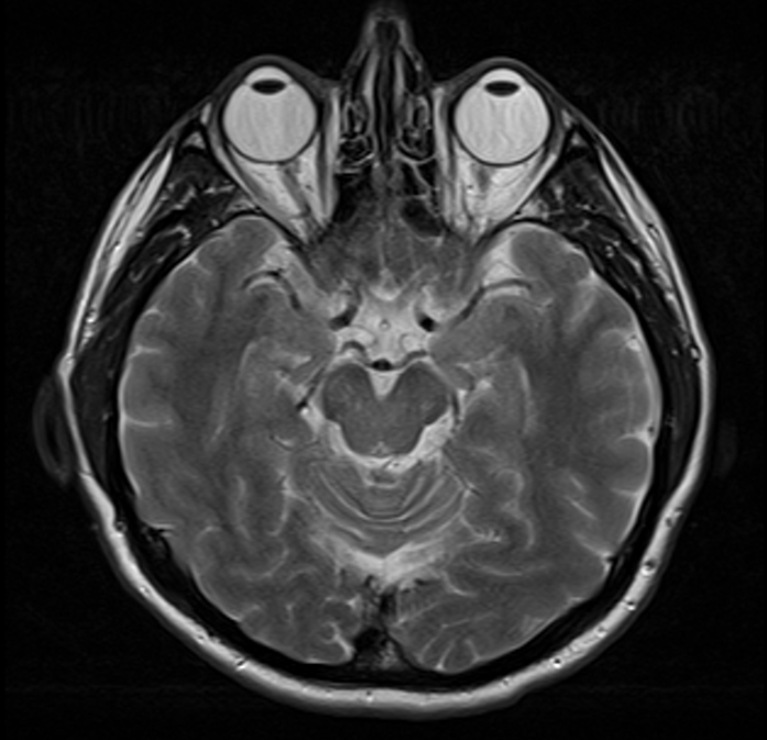 MRI of the head (Brain), normal. Acquired on a Siemens MAGNETOM Aera 1.5 Tesla scanner.